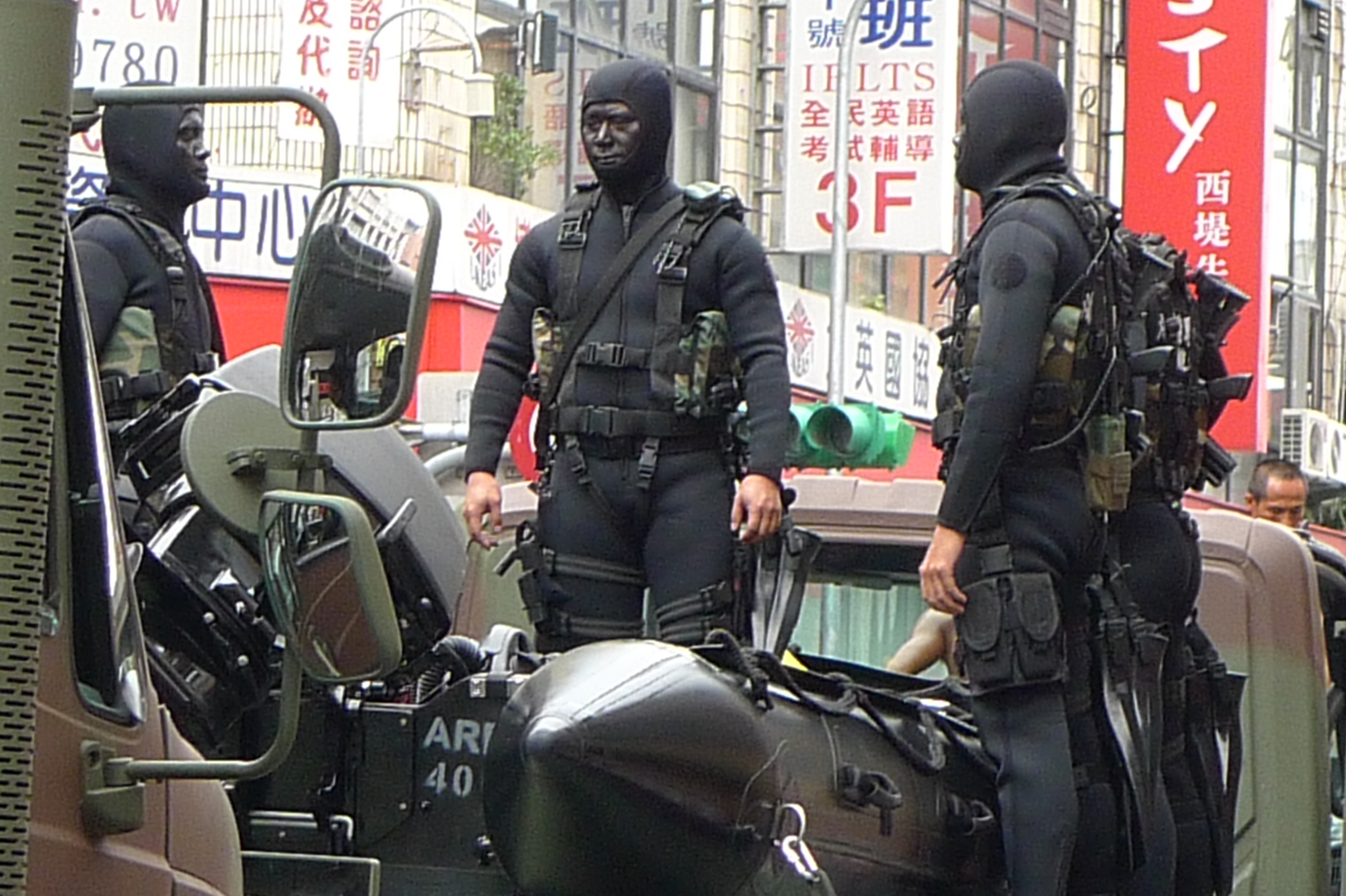 October 10 2011 Taiwan celebrates 100th anniversary